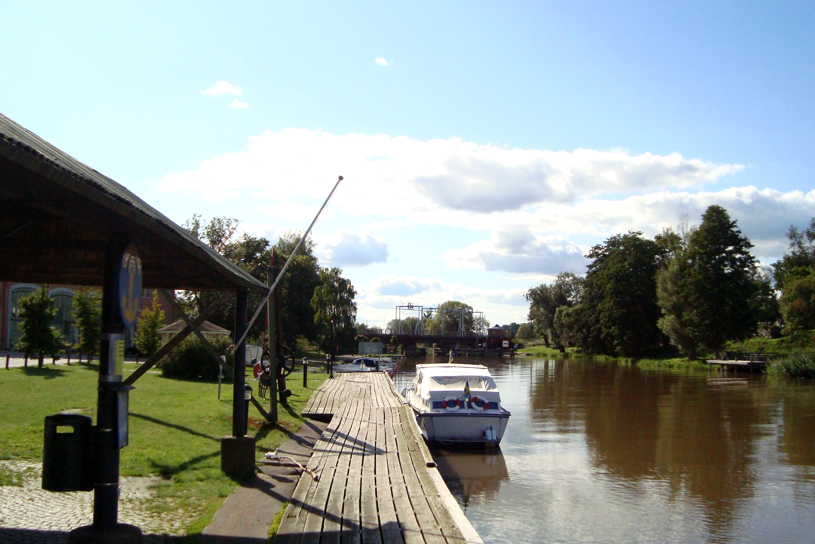 Harbour of Kungsör; Stream of Arboga near its mouth in lake Mälaren, Sweden.